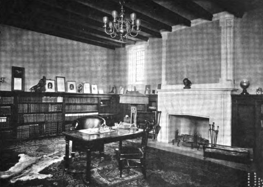 Charles Frohman's office, NYC. Charles Frohman (July 15, 1856 – May 7, 1915) was an American theatrical producer.